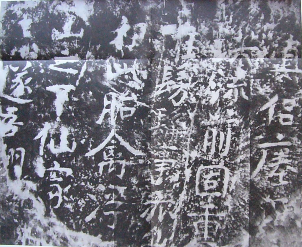 Rubbing of Yi he ming（Epitah buring a crane） by Hua-yang-chen-i(Attributed to Tao Hongjing (ACE456-536) Rock epitaph on the Jiaoshan Island Jiangsu, China Rubbing uncut in Ming dynasty